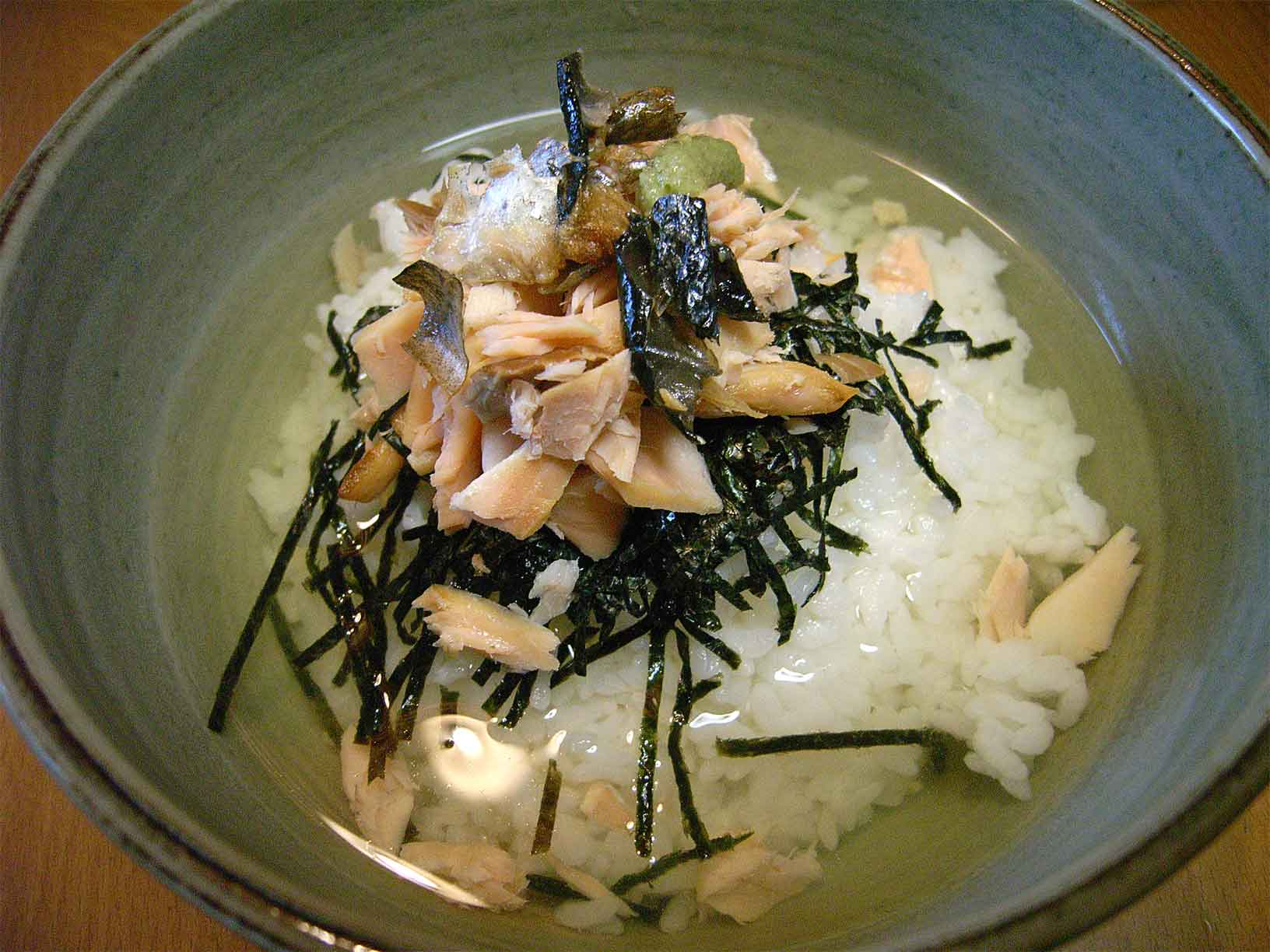 it's an Ochazuke, bowl of rice with tea, topped with salmon and nori, sea weed